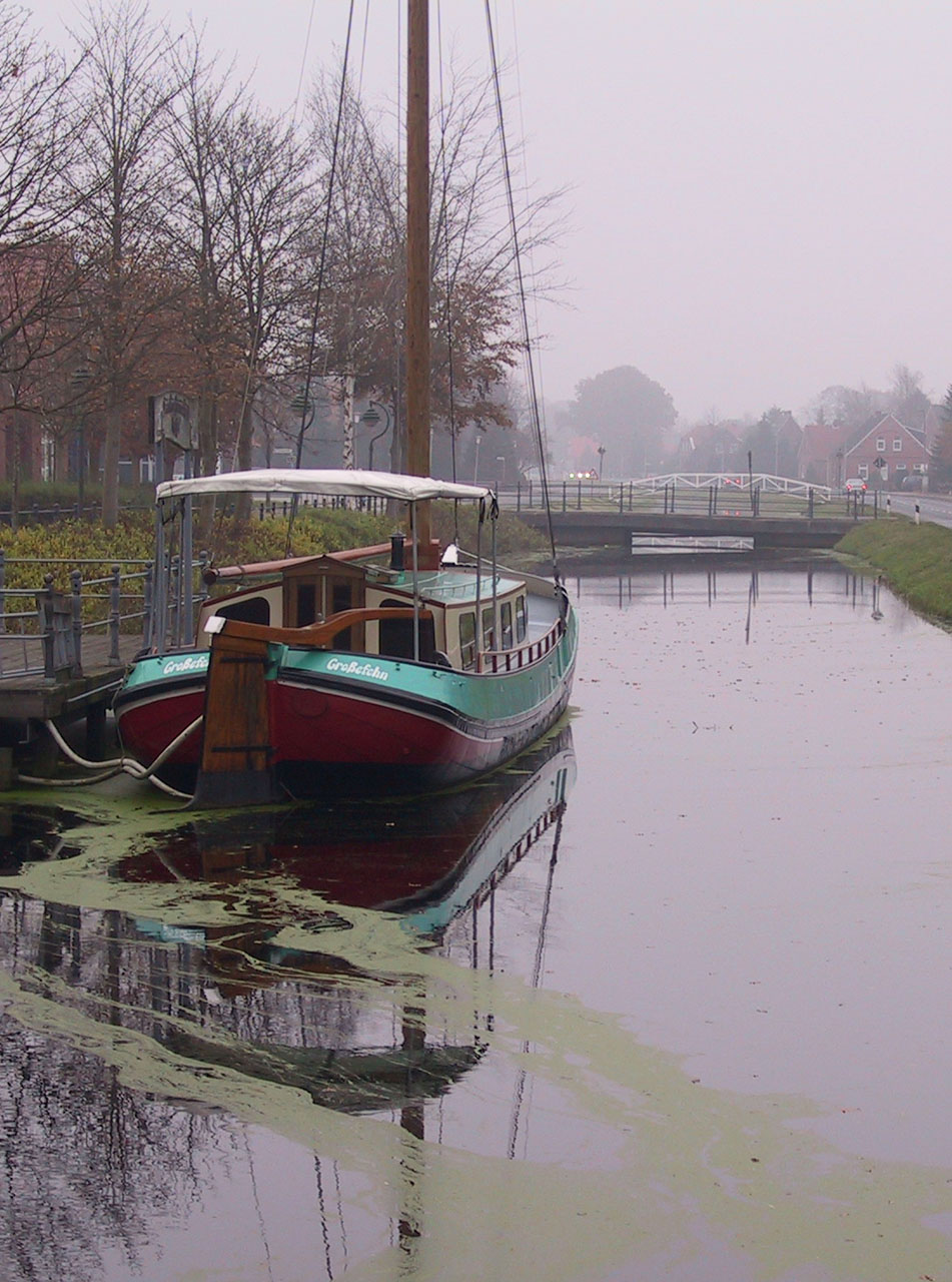 Ship on canal in Großefehn, Ostfriesland, Germany.